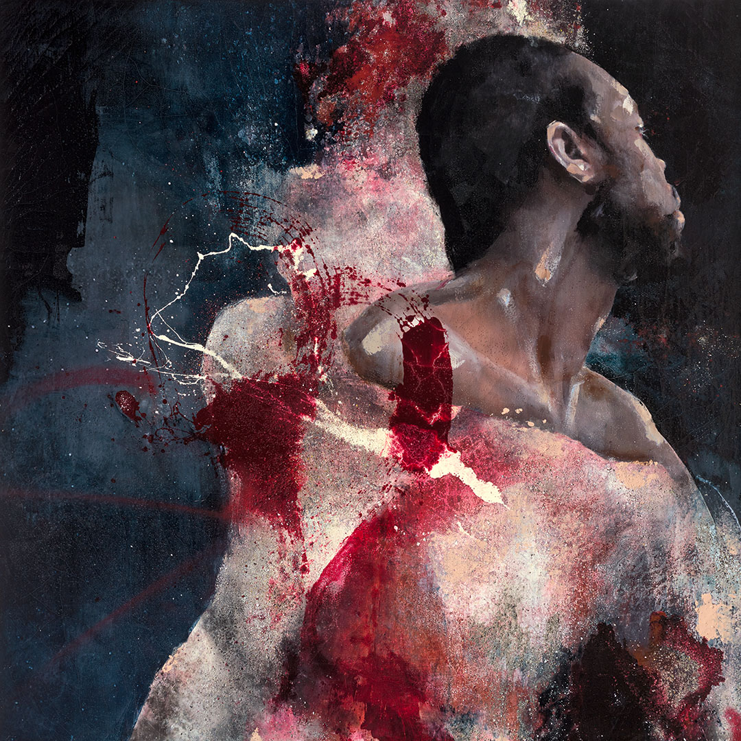 Mixed media on canvas, 180x180cm